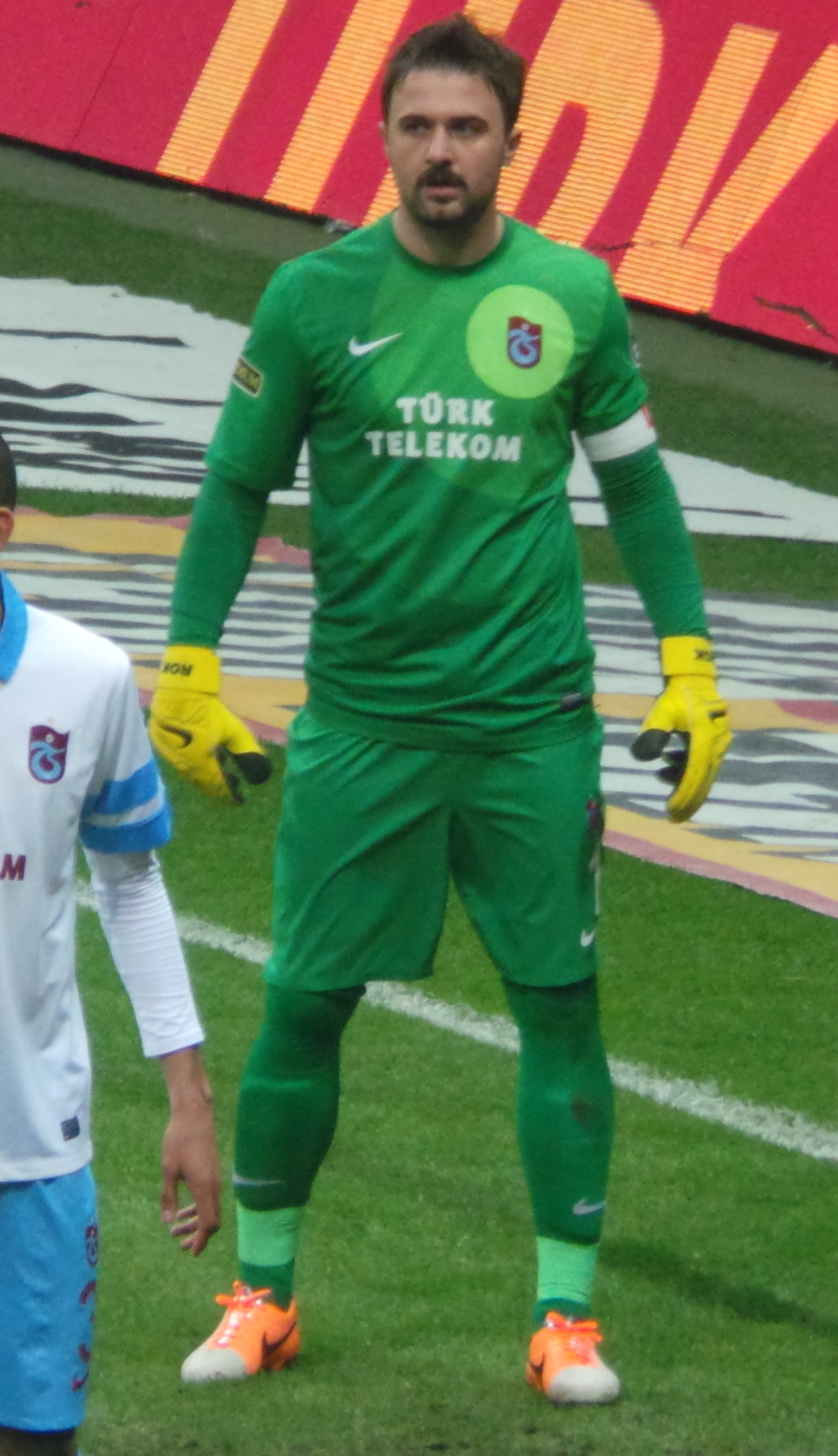 Onur Kıvrak